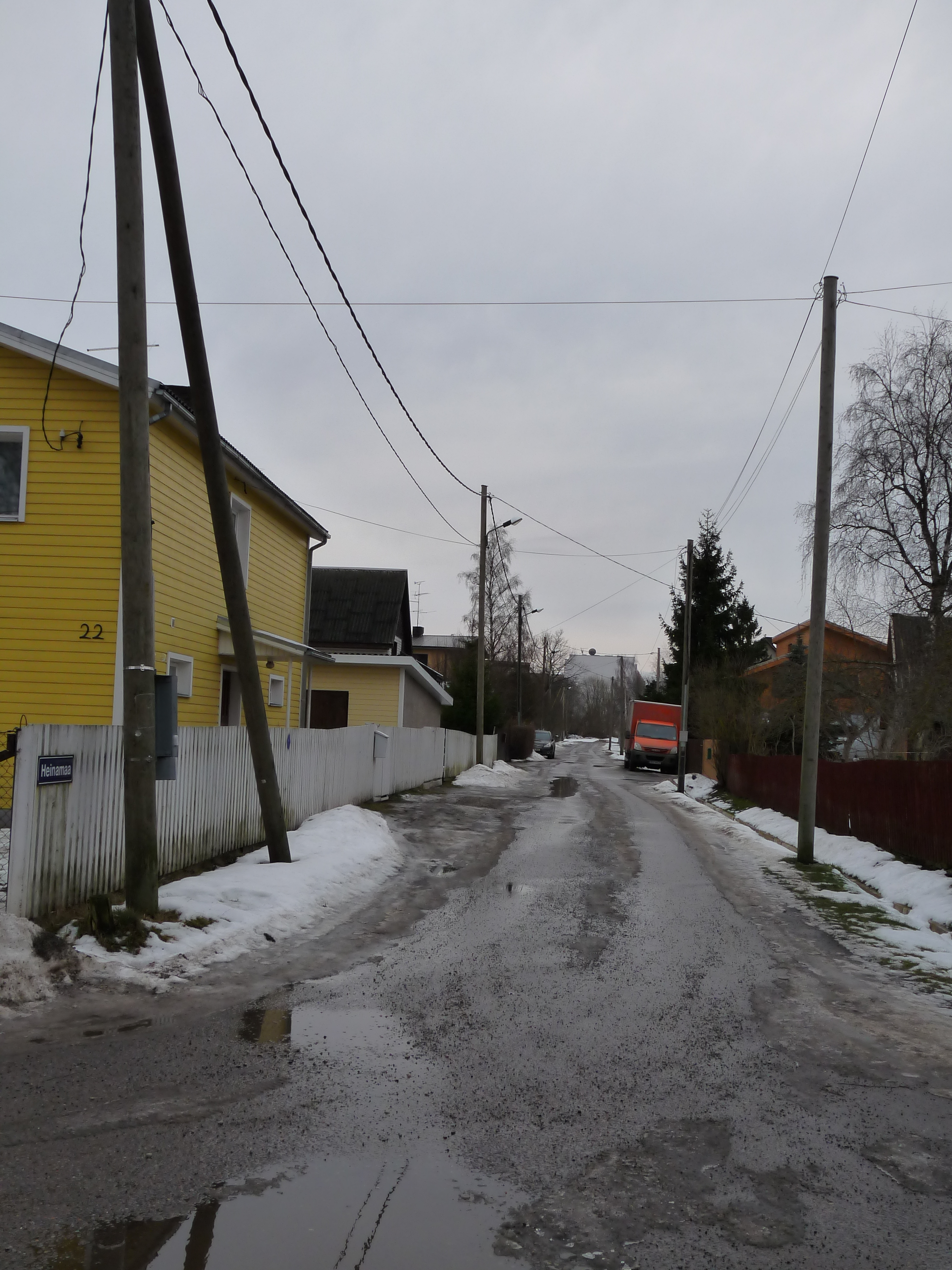 Heinamaa street in Tallinn, Estonia